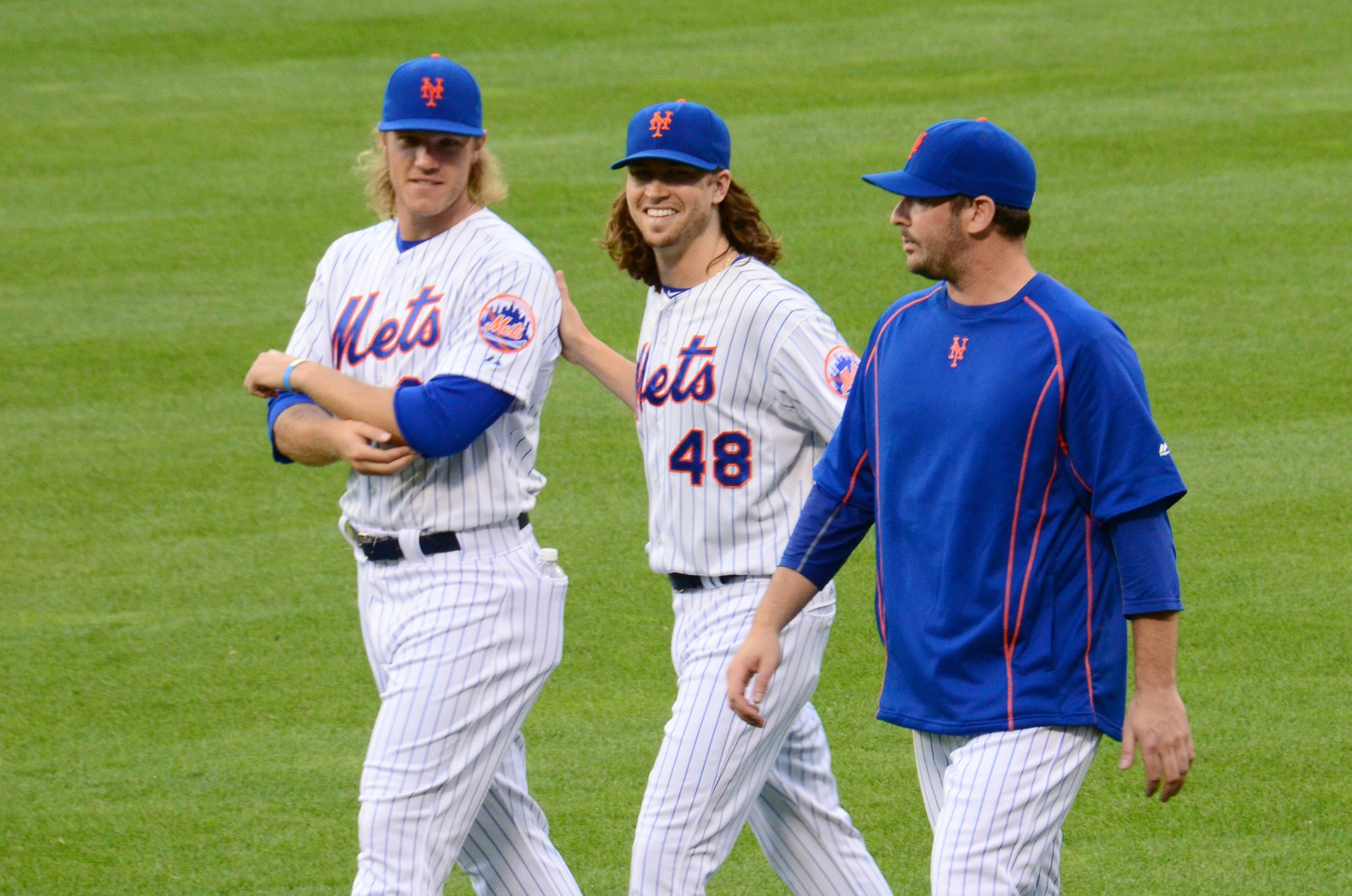 (From left to right) Noah Syndergaard, Jacob deGrom and Matt Harvey